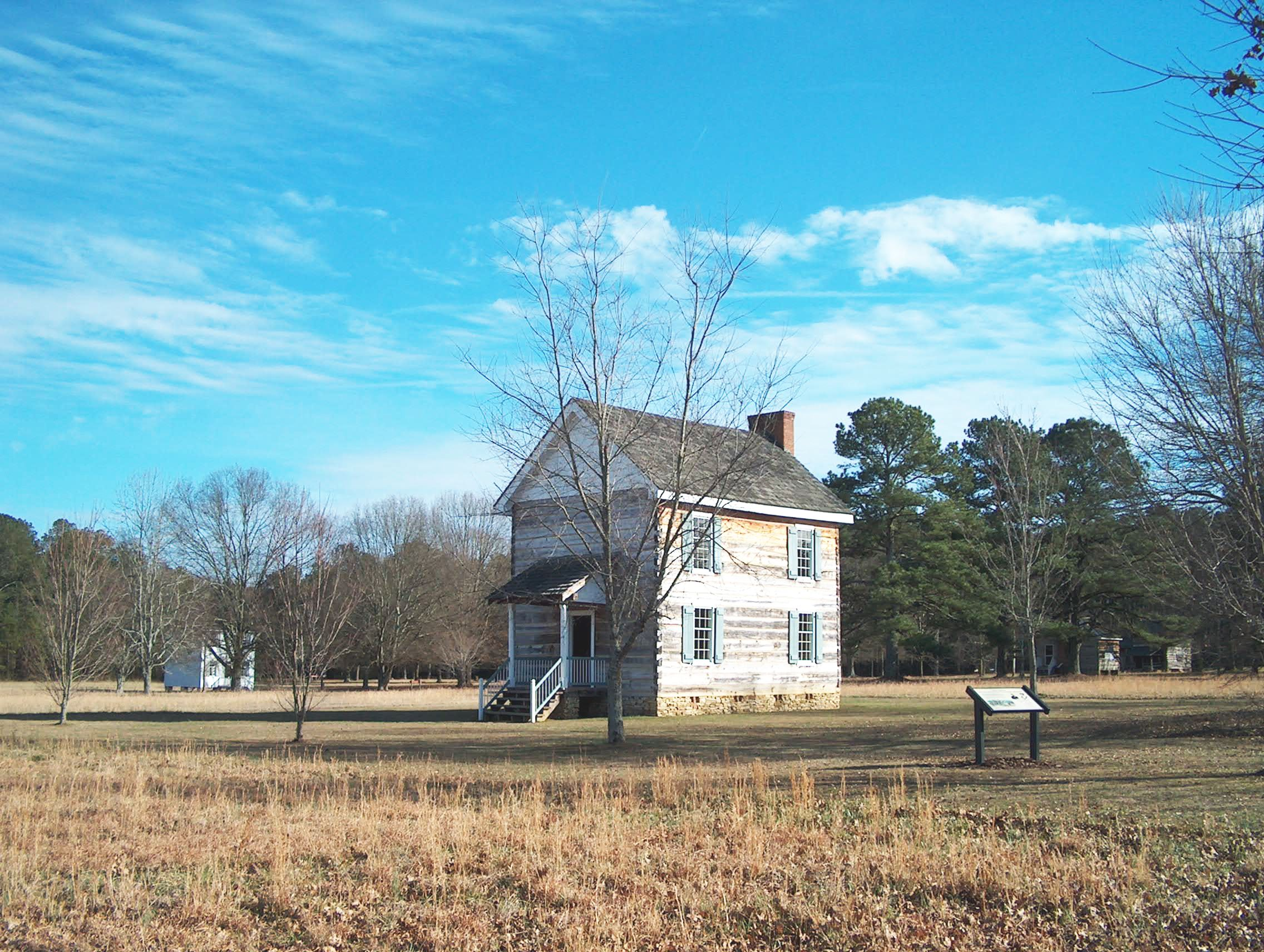 The picture was taken by Cculber007 at New Echota Historic Site including New Echota Print Shop where the bilingual newspaper, the Cherokee Phoenix, was printed and invented by Sequoyah, Council House where Cherokees had meeting, and others, and courthouse